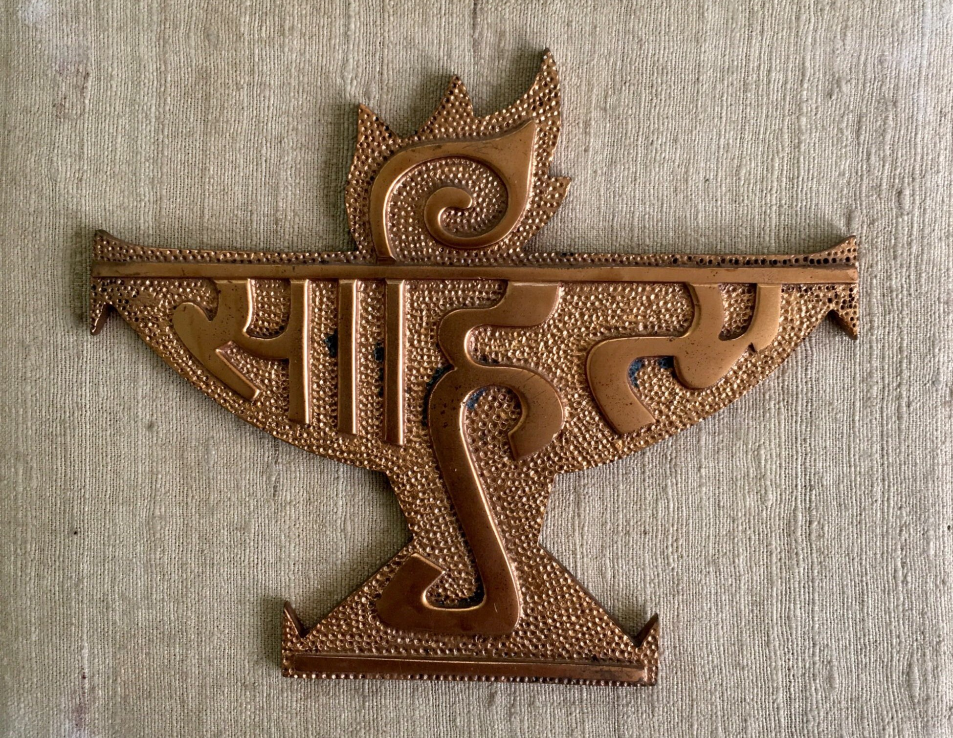 One of India's highest literary awards from Sahitya Akademi of India, conferred upon Acharya Dwivedi in 1991 for an early edition of his modern Sanskrit epic Svatantryasambhavam.